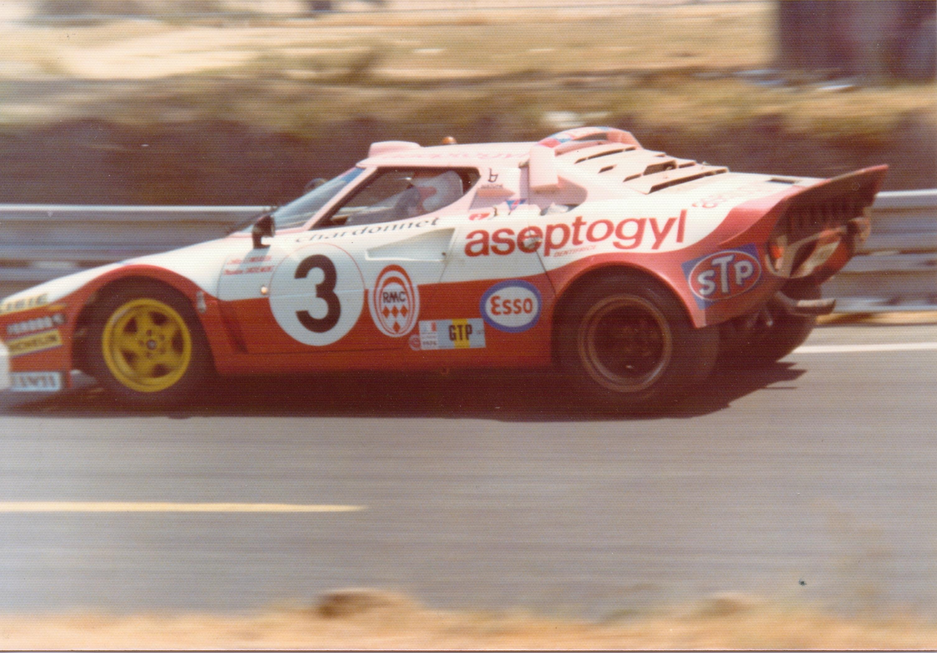 The Lancia Stratos Turbo of Lombardi & Dacremont (known as the ladies car) which finished 20th in the 1976 Le Mans 24 hours.